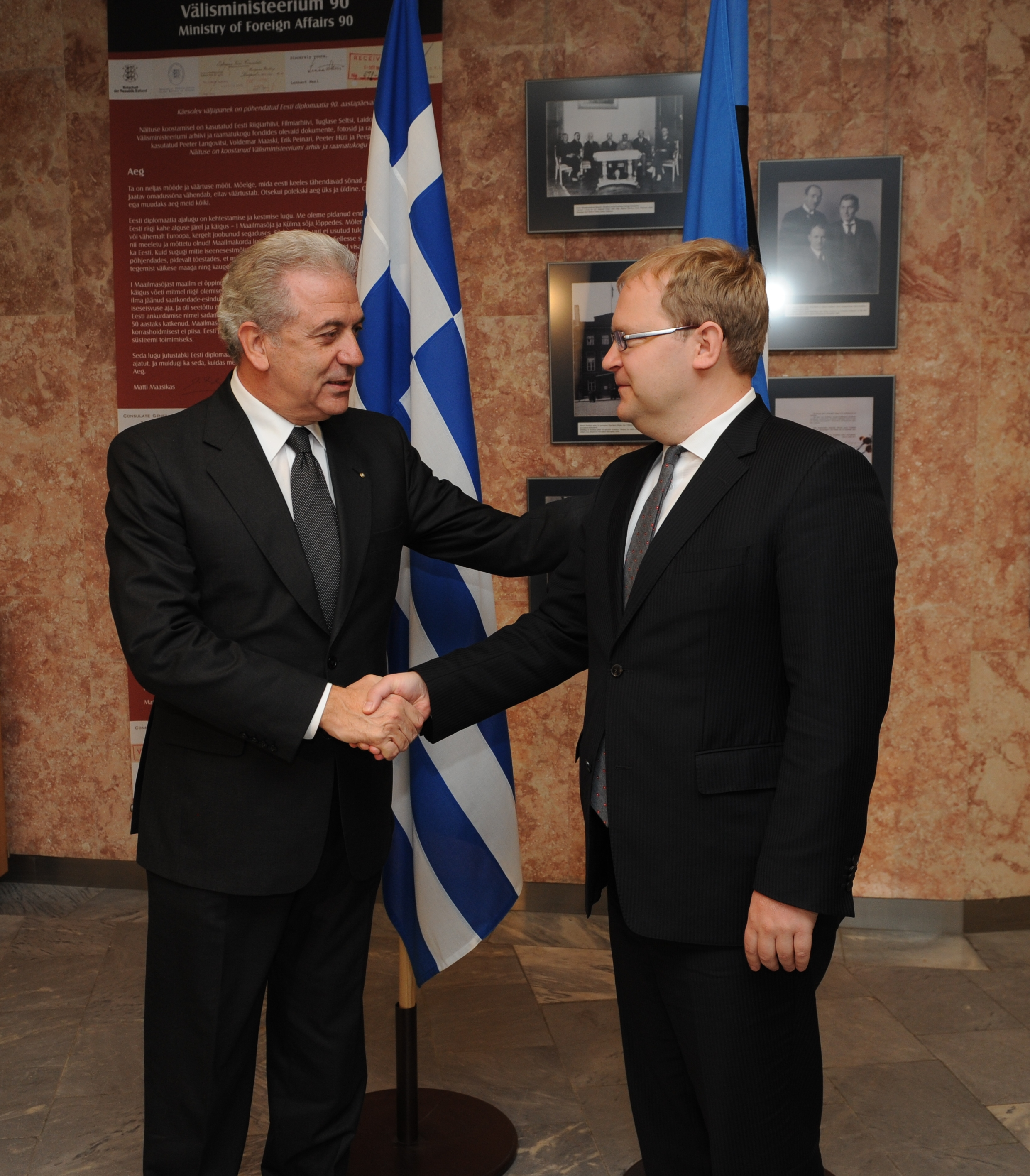 FM Urmas Paet met with Greek Foreign Minister Dimitrios Avramopolous (Tallinn)